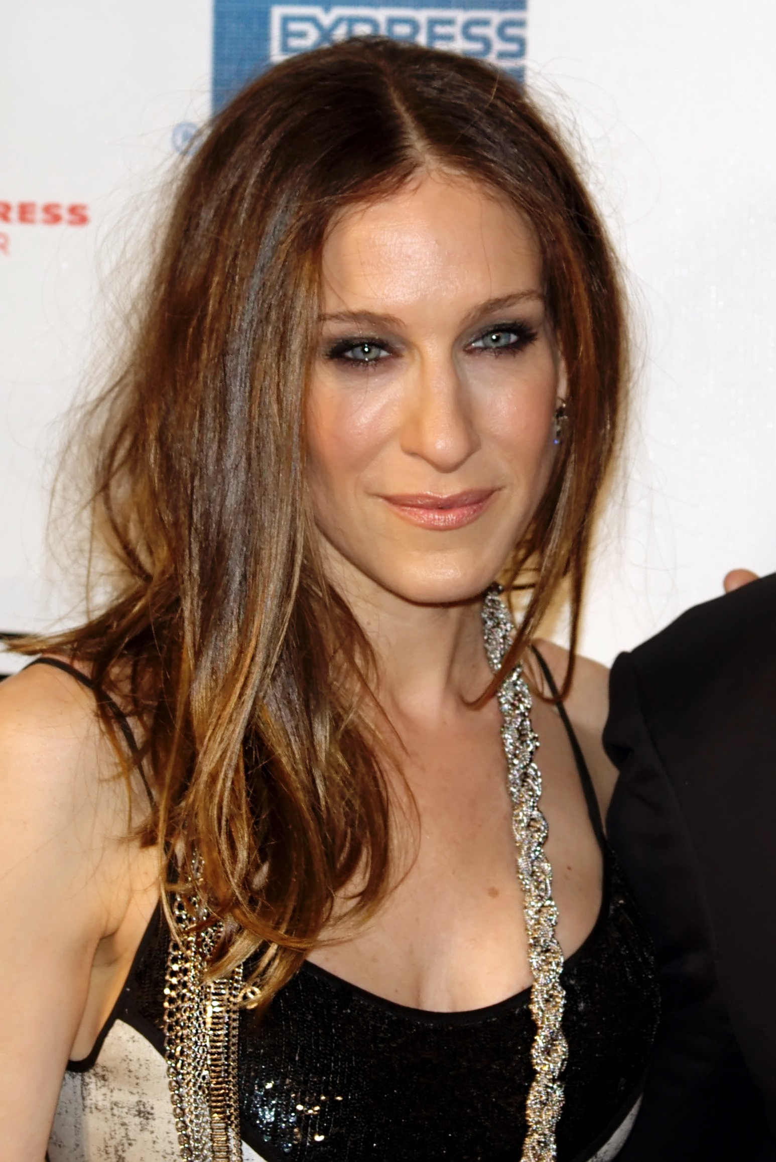 Sarah Jessica Parker at the 2009 Tribeca Film Festival for the premiere of Wonderful World. Photographer's blog post about these photos.